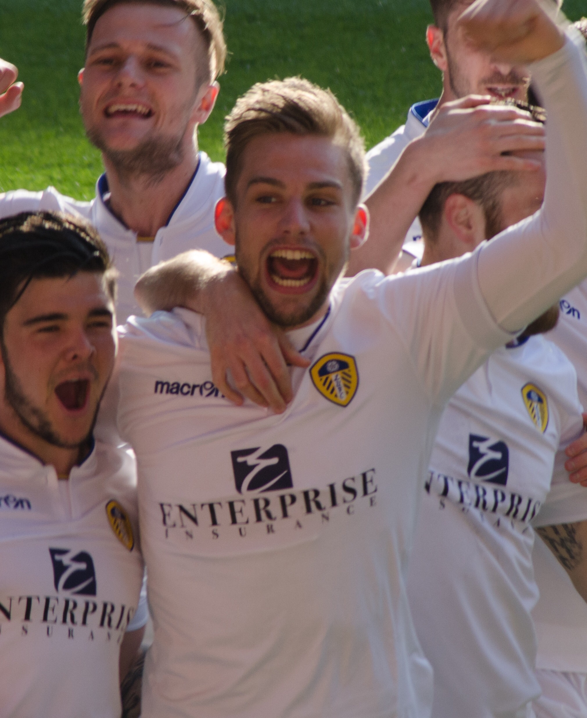 English footballer Charlie Taylor